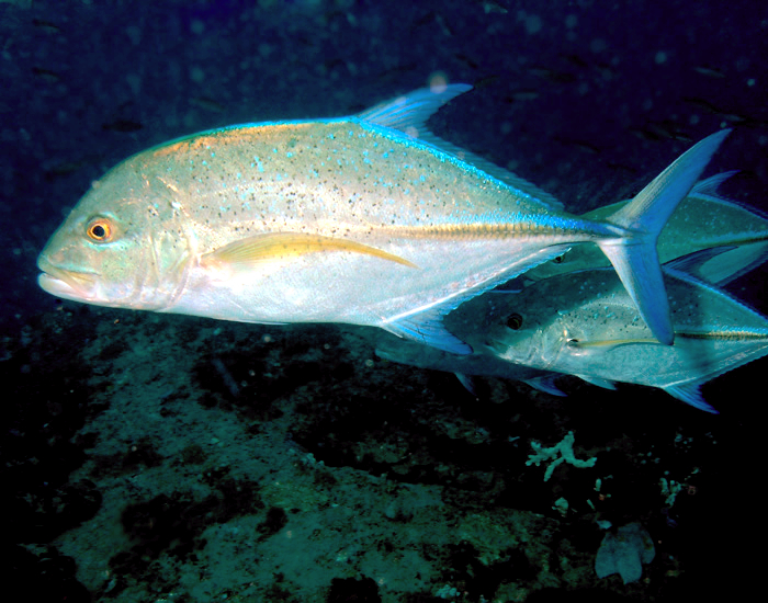 TrevallyCaranx melampygus